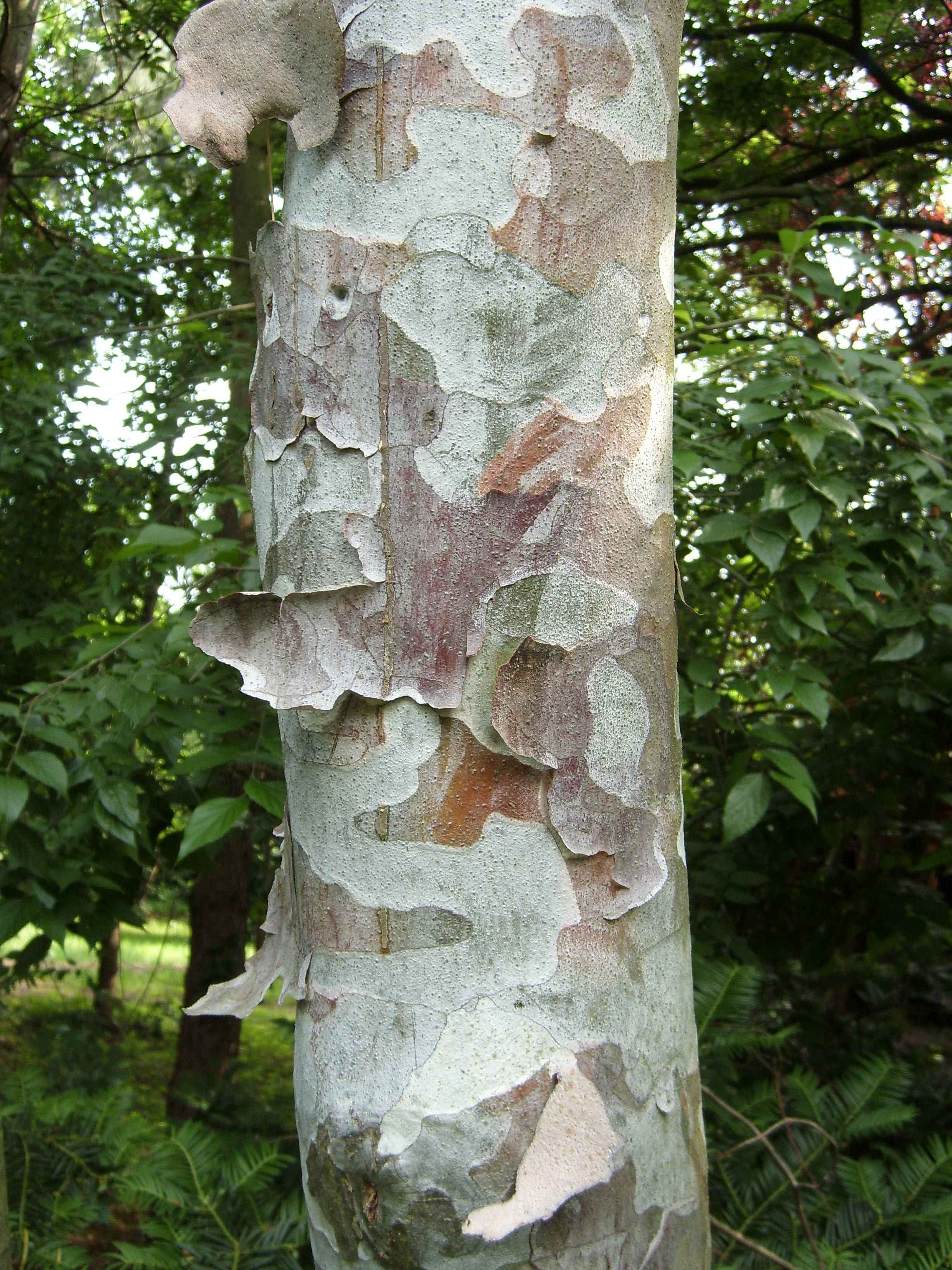 Bark of Pinus bungeana